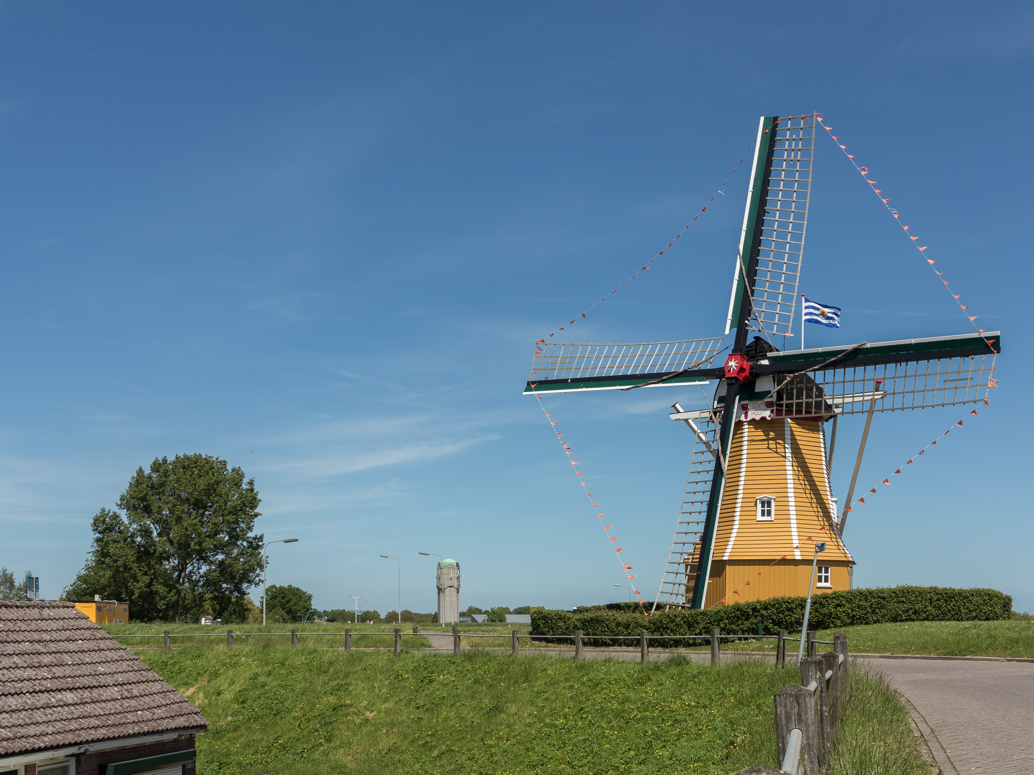 Sint Philipsland, windmill: korenmolen de Hoop